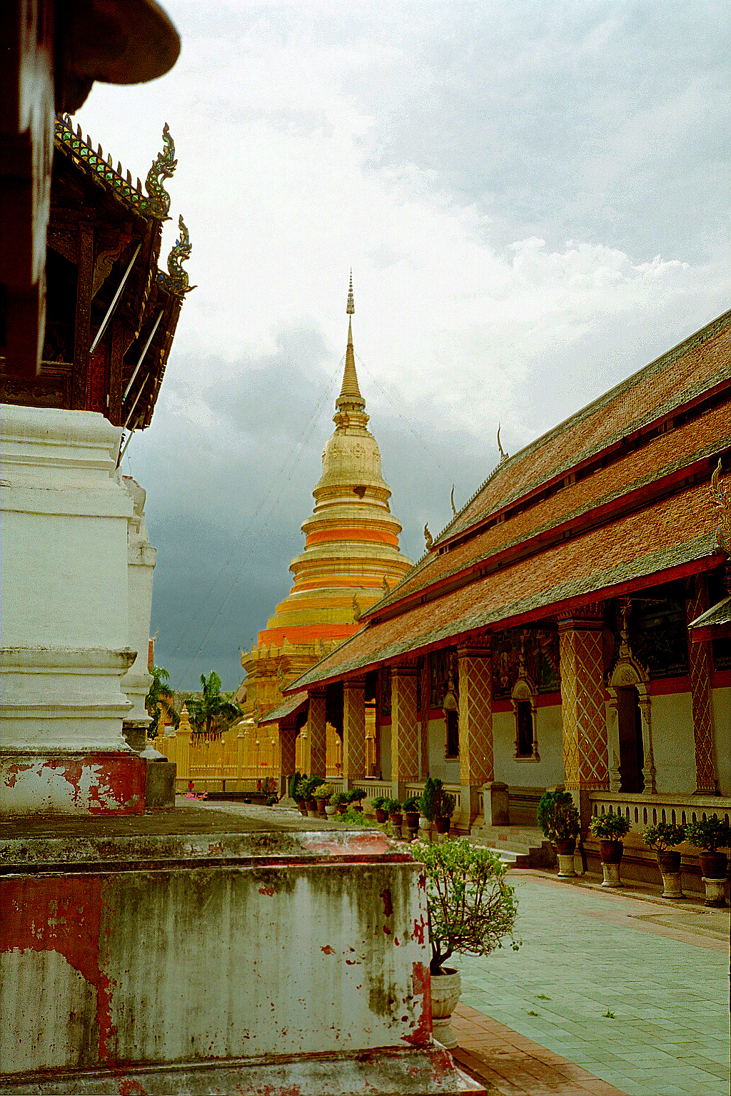 Viharn Luang and Chedi of Wat Phrathat Hariphunchai, Lamphun, northern Thailand.